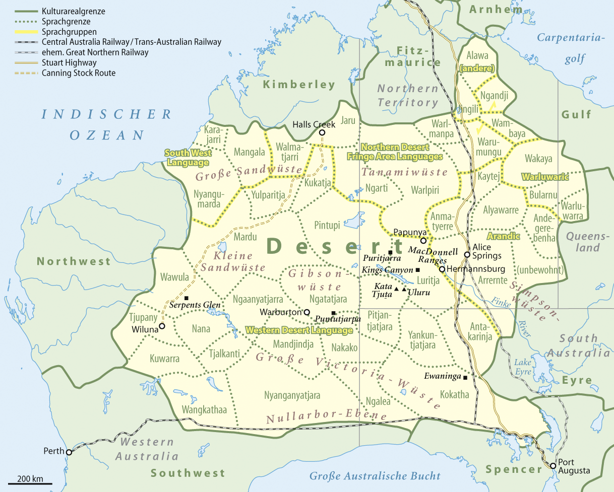 Map of Aboriginal region "Desert"